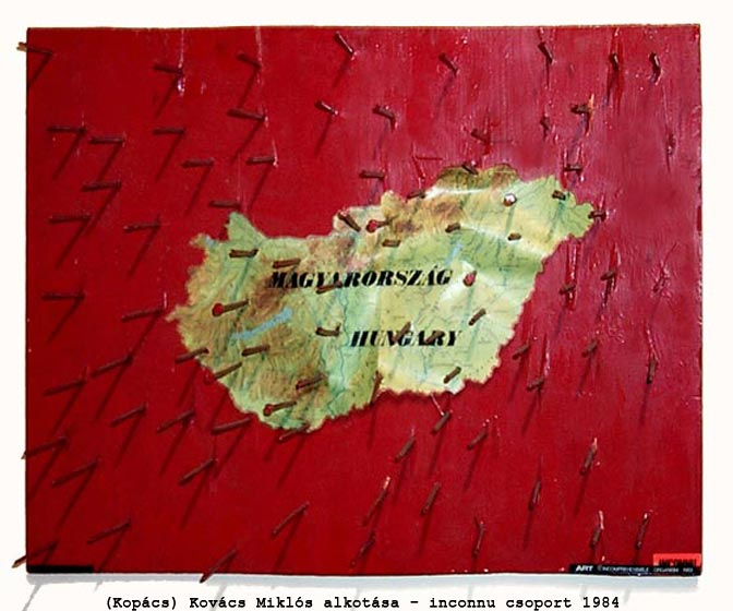 Atwork of Kopács Kovács Miklós in year 1984 in Hungary which country was than under pressure of invander soviet union.